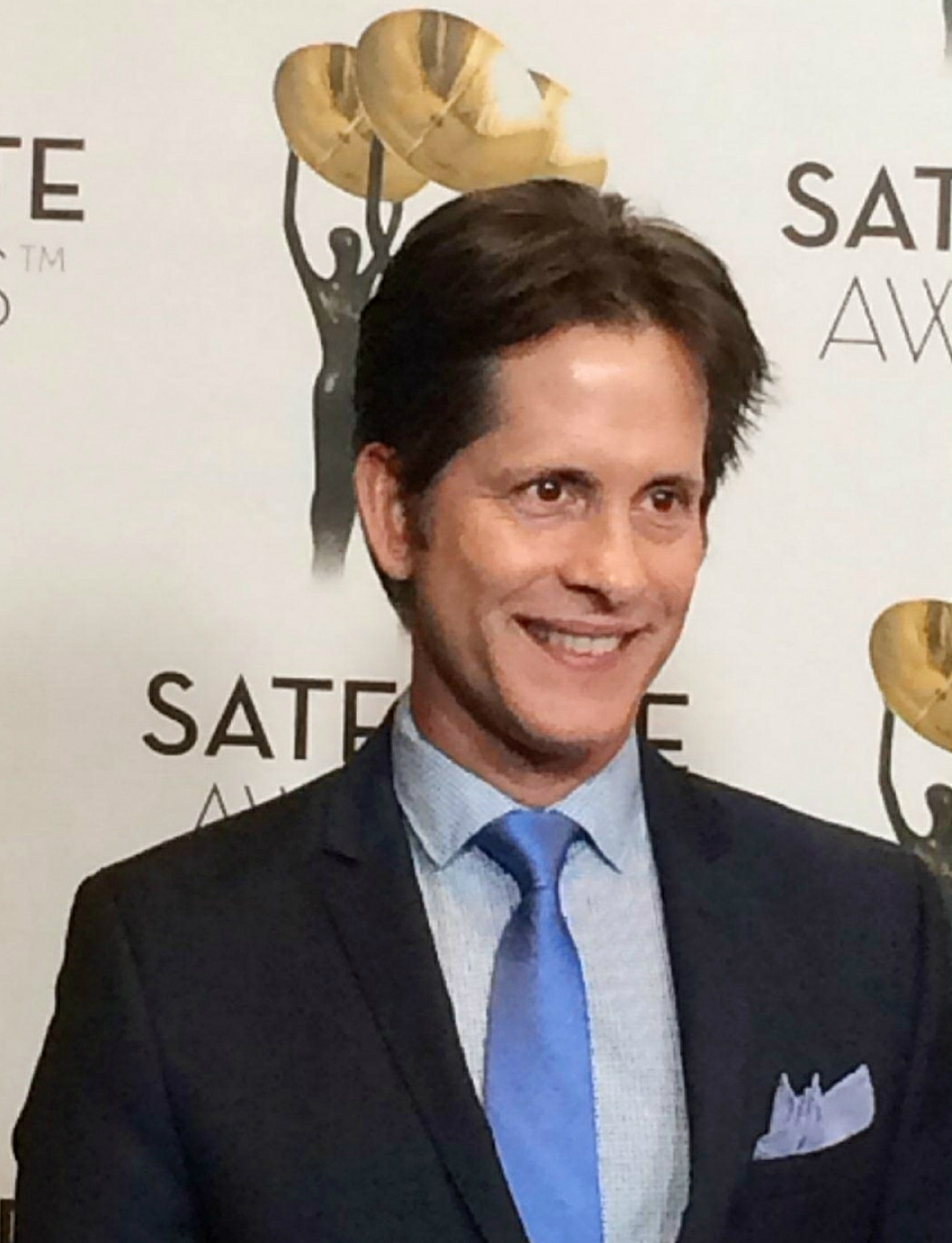 John Allee attends the 2016 Satellite Awards in Los Angeles.